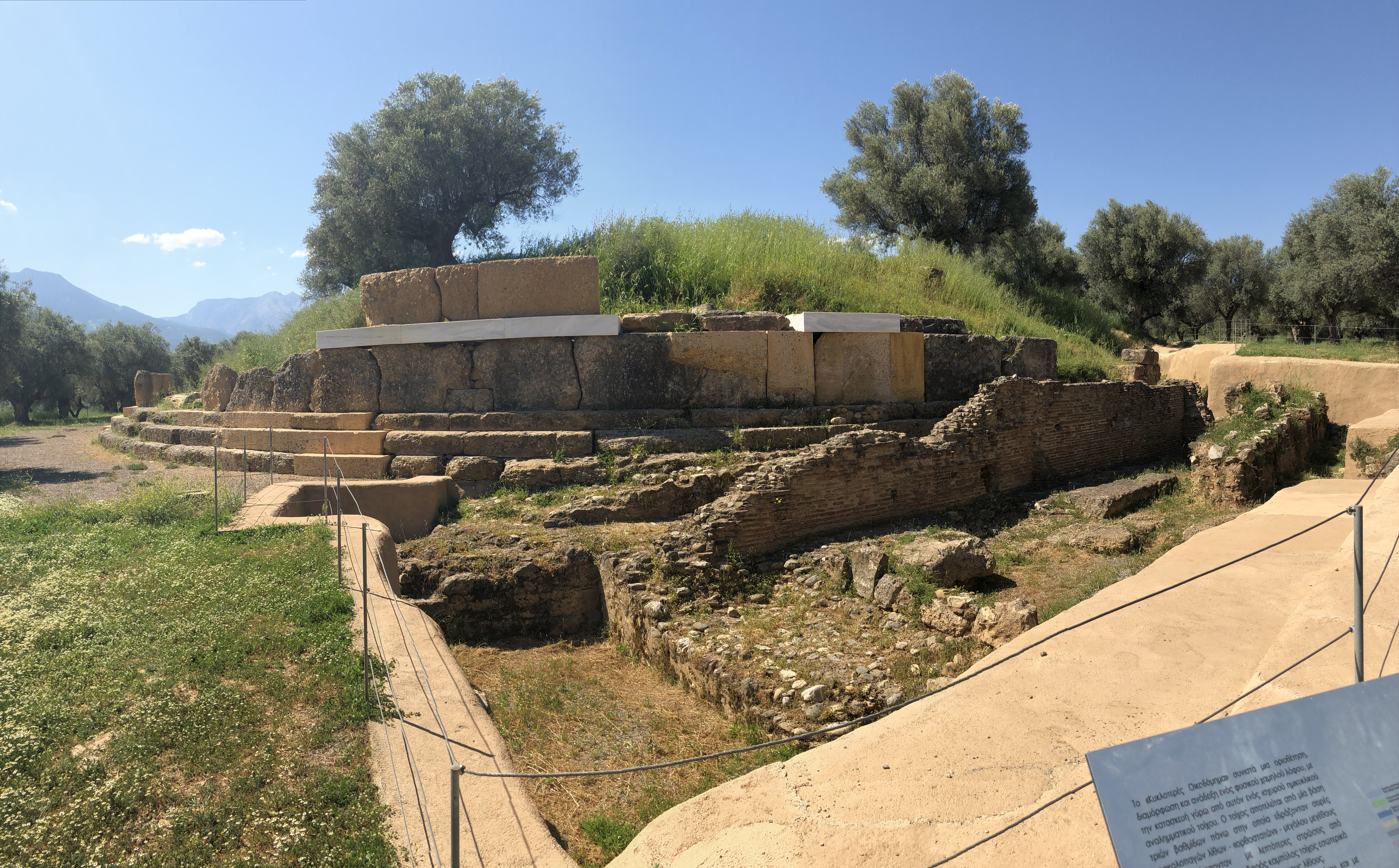 round building and roman stoa